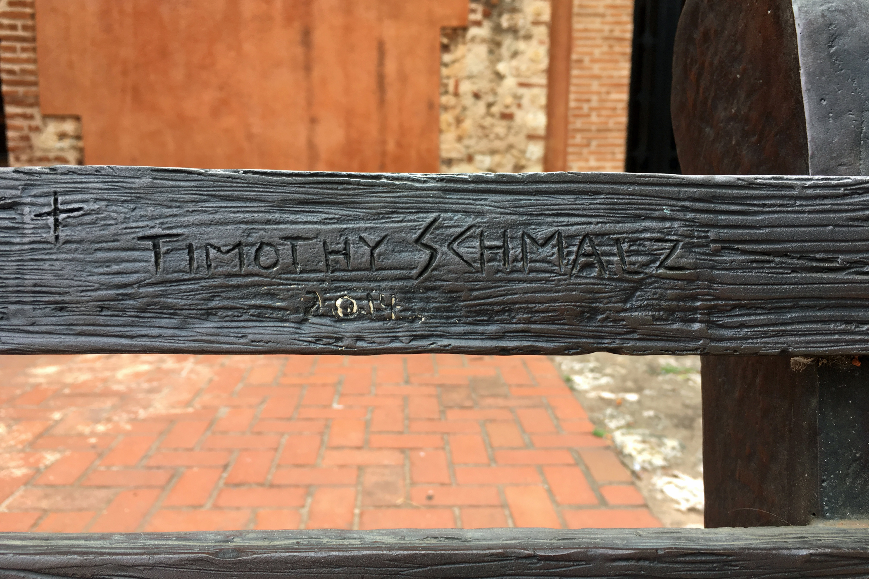 Signature of sculptor Thimoty P. Schmalz on the bench of the "Homeless Jesus" sculpture located at the Dominican Order Church and Convent Ciudad Colonial, Santo Domingo, Dominican Republic.